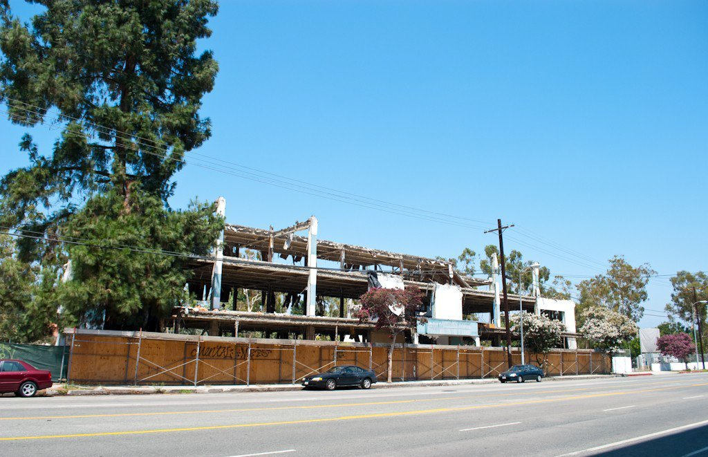 Scrubs (tv series) Set\Filming Location - August 2011 - North Hollywood - Los Angeles - California